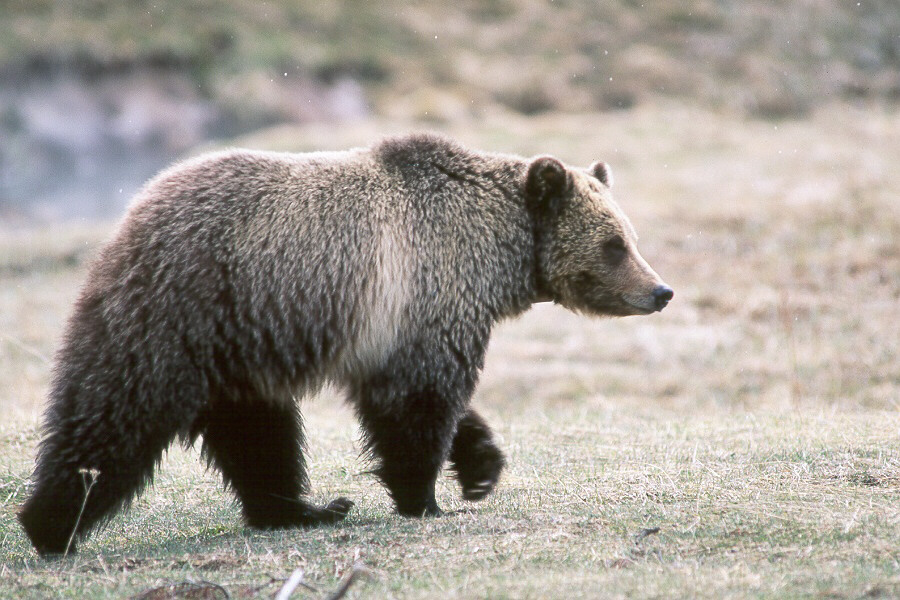 Grizzly bear (Ursus arctos horribilis) at Glacier National Park, Montana, USA